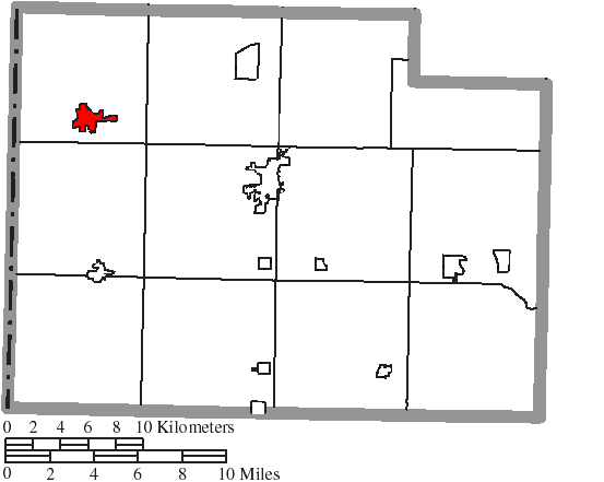 Map of the municipal and township boundaries of Paulding County, Ohio, United States, as of the 2000 census, with the location of the village of Antwerp highlighted. Township borders are shown only in unincorporated areas in order to differentiate incorporated and unincorporated areas more clearly.